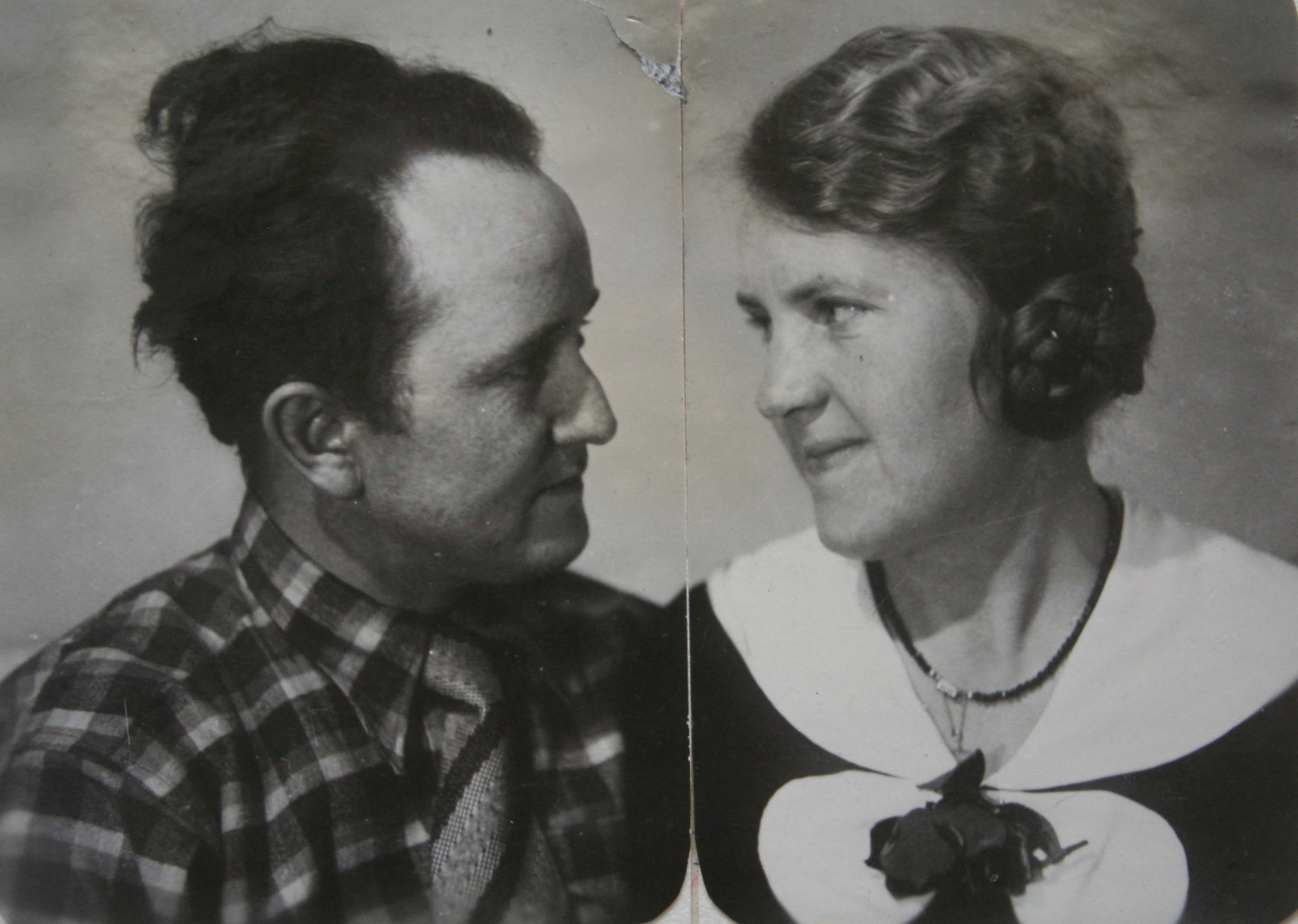 German painter Otto Müller and his wife Senta, née Demmer, on 24 March 1934